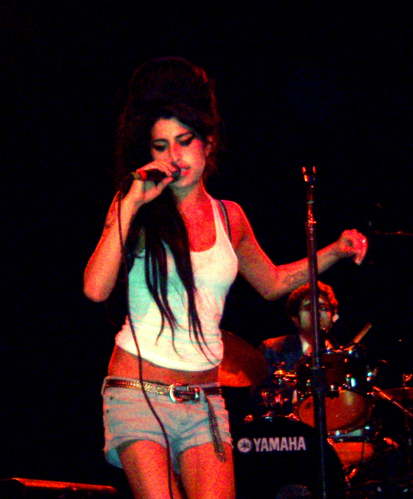 Amy Winehouse performing at Electric Factory in Philadelphia, 2007